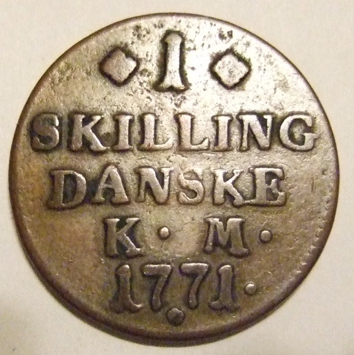 DENMARK CHRISTIAN VII, 1771 ---ONE SKILLING b